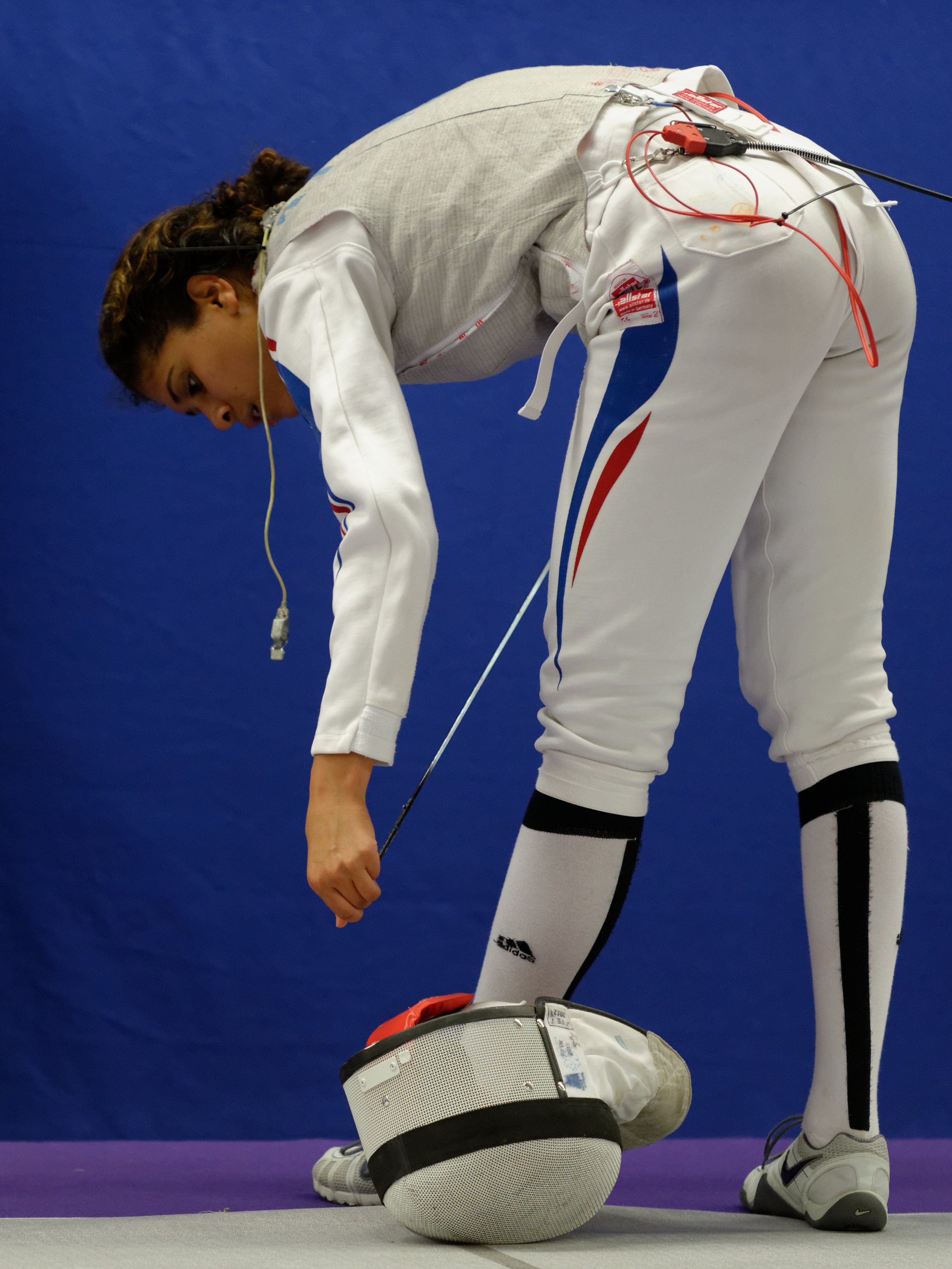 Foil fencer Ysaora Thibus straightens her blade during the final of the French Fencing Championships at the Éric Tabarly Sports Complex in Antony, 2013.